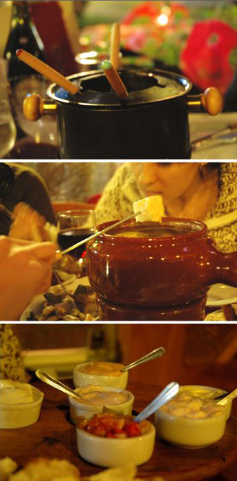 A sequence of images of a fondue bourguignonne.